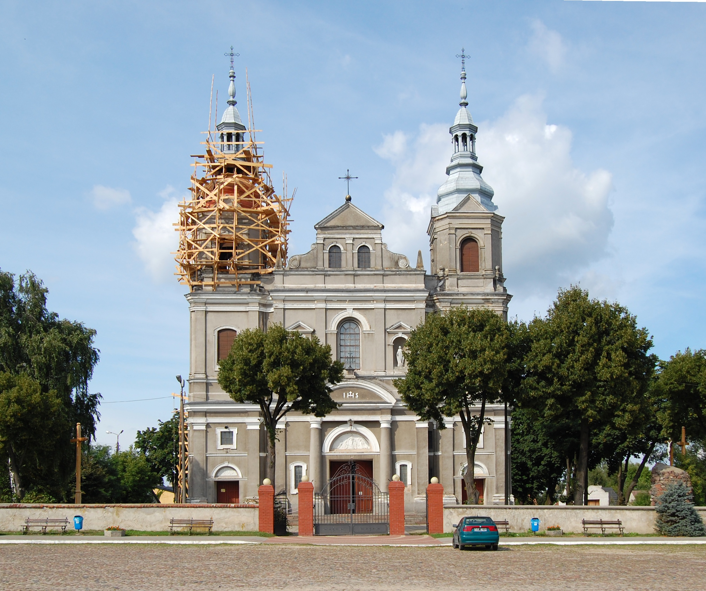 Church in Parysów, Masovian Voivodeship, Poland.